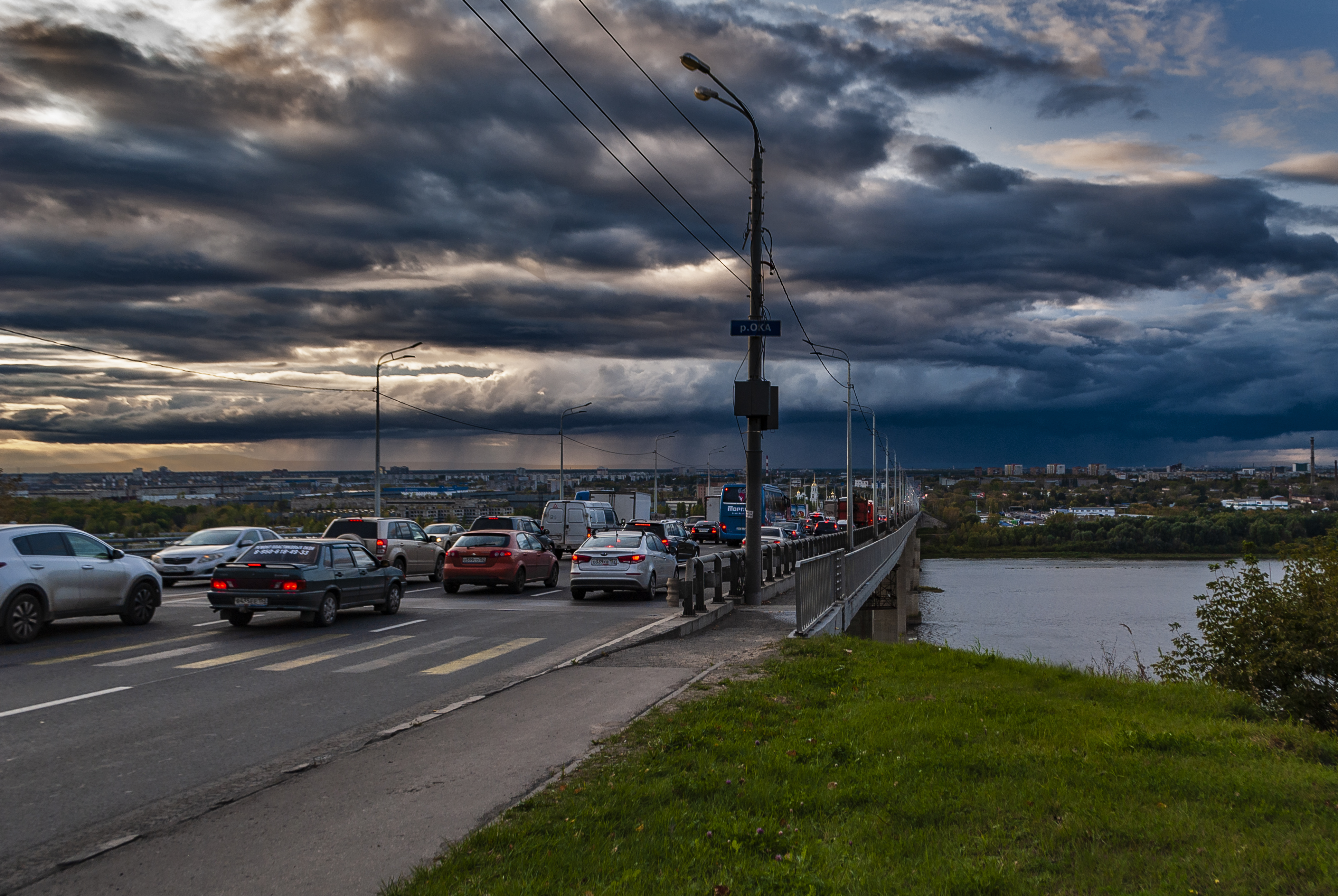 Myzinsky Bridge before the storm